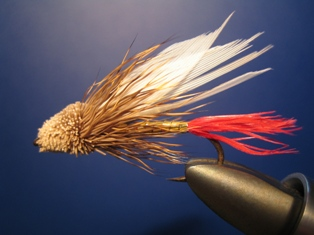 Description: Muddler Minnow fly pattern Author: Marc Yarascavitch Source: Owner Permission: Public Date: 22nd April 2006